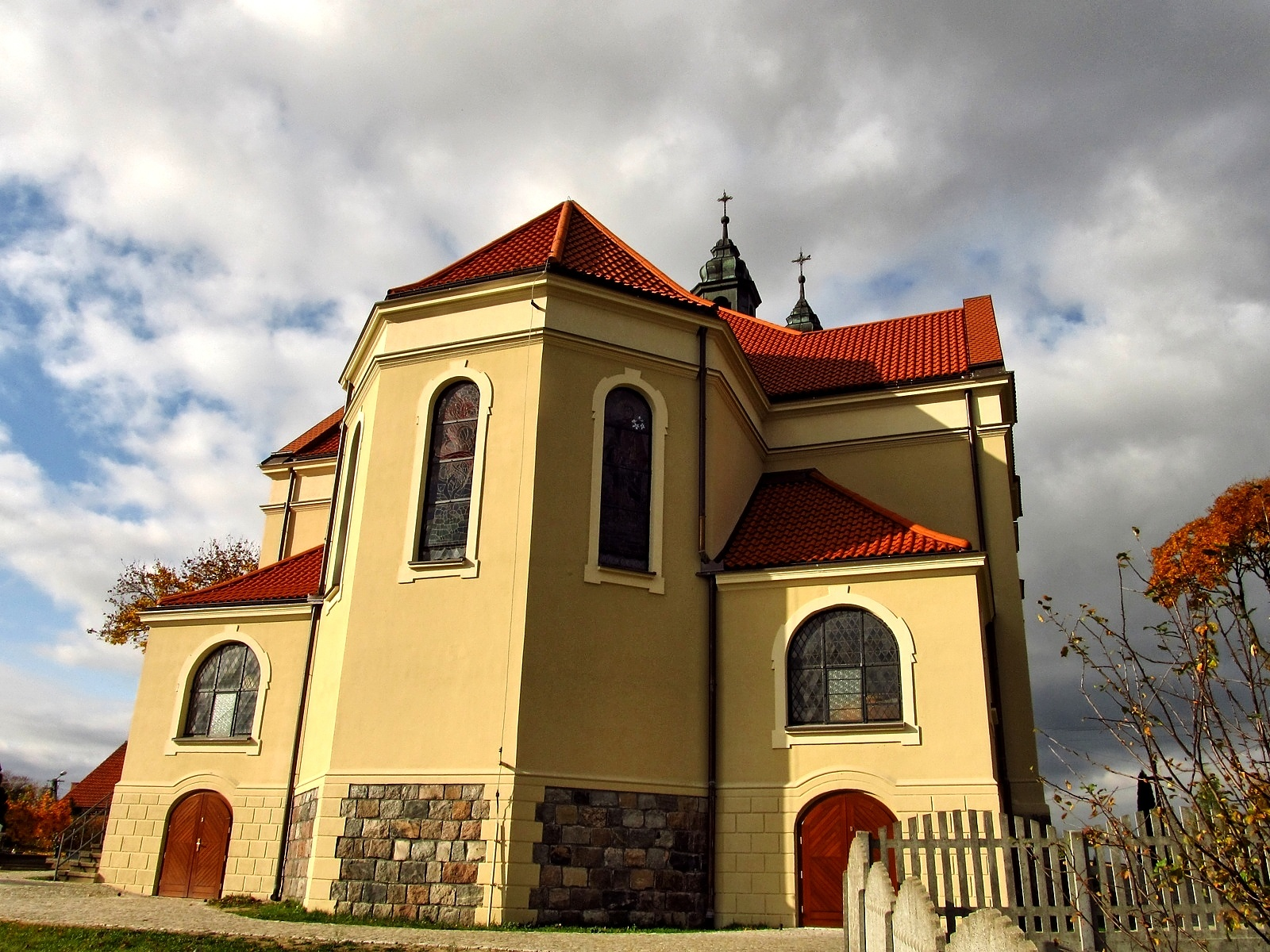 Kościół Św. Elżbiety w Pinczynie